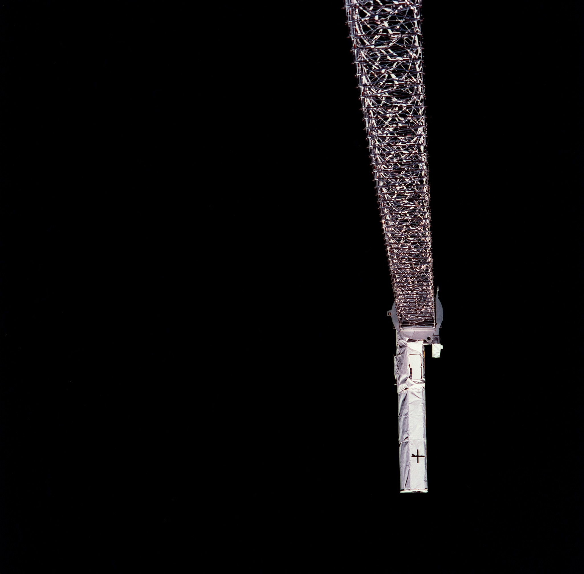 The 200 ft.-long (60 meters) mast supporting the Shuttle Radar Topography Mission (SRTM) juts into space from the Space Shuttle Endeavour (out of frame at top). The giant structure was deployed on February 12 and the antennae on it quickly went to work mapping parts of Earth. The outboard antenna can be seen near bottom right.